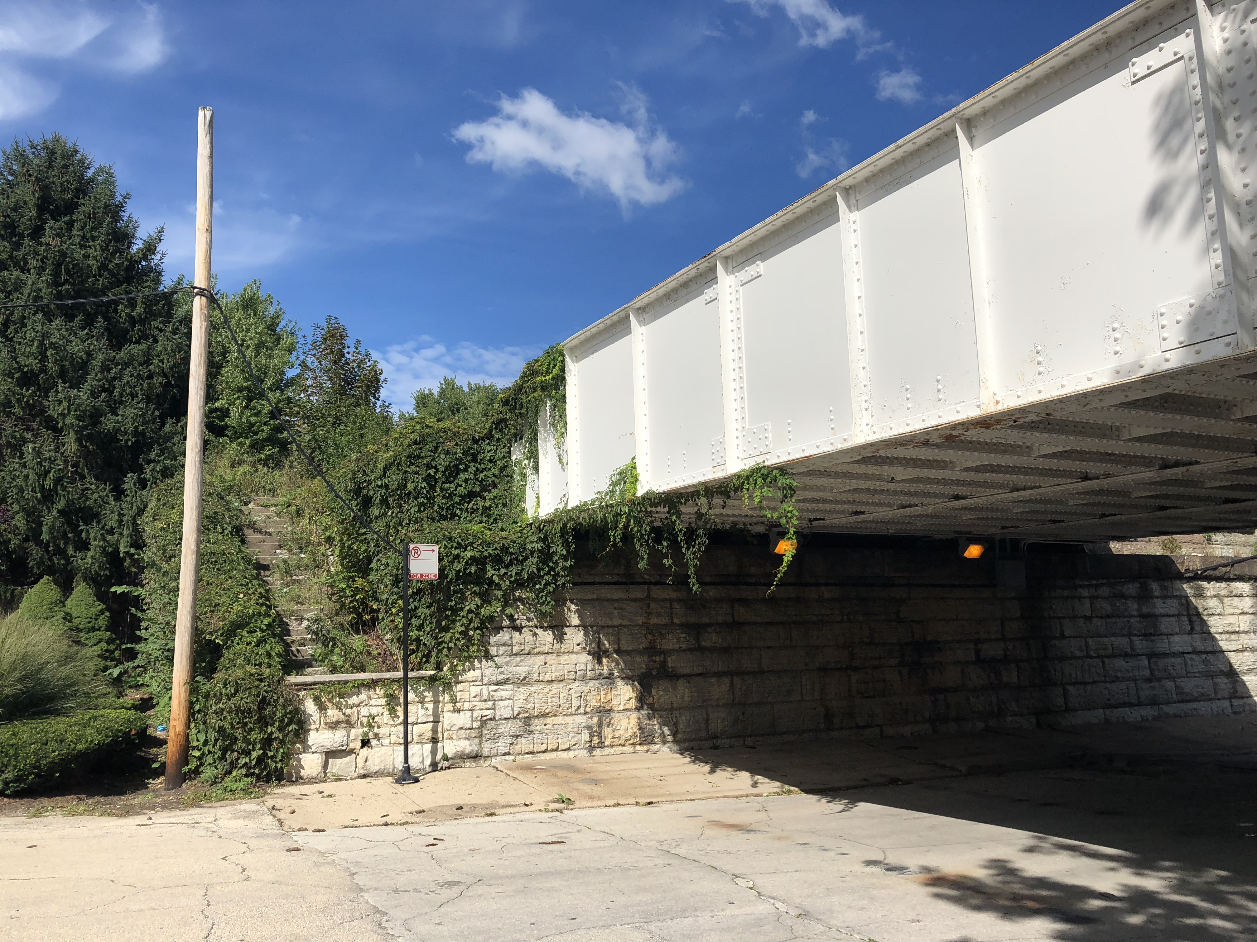 Stairway (seen behind the no parking sign) leading to the (since demolished) northbound platform of the Chicago and North Western Railway's Rose Hill station in Chicago. While the stairway itself was not removed after the station's closure, access to it was by placing a barrier matching the abutment supporting the viaduct over Rosehill Drive. Uncontrolled vegetation has taken over portions of the stairway which partially obscure it from view. At the time of the photo, the station had been abandoned for almost a full sixty years.